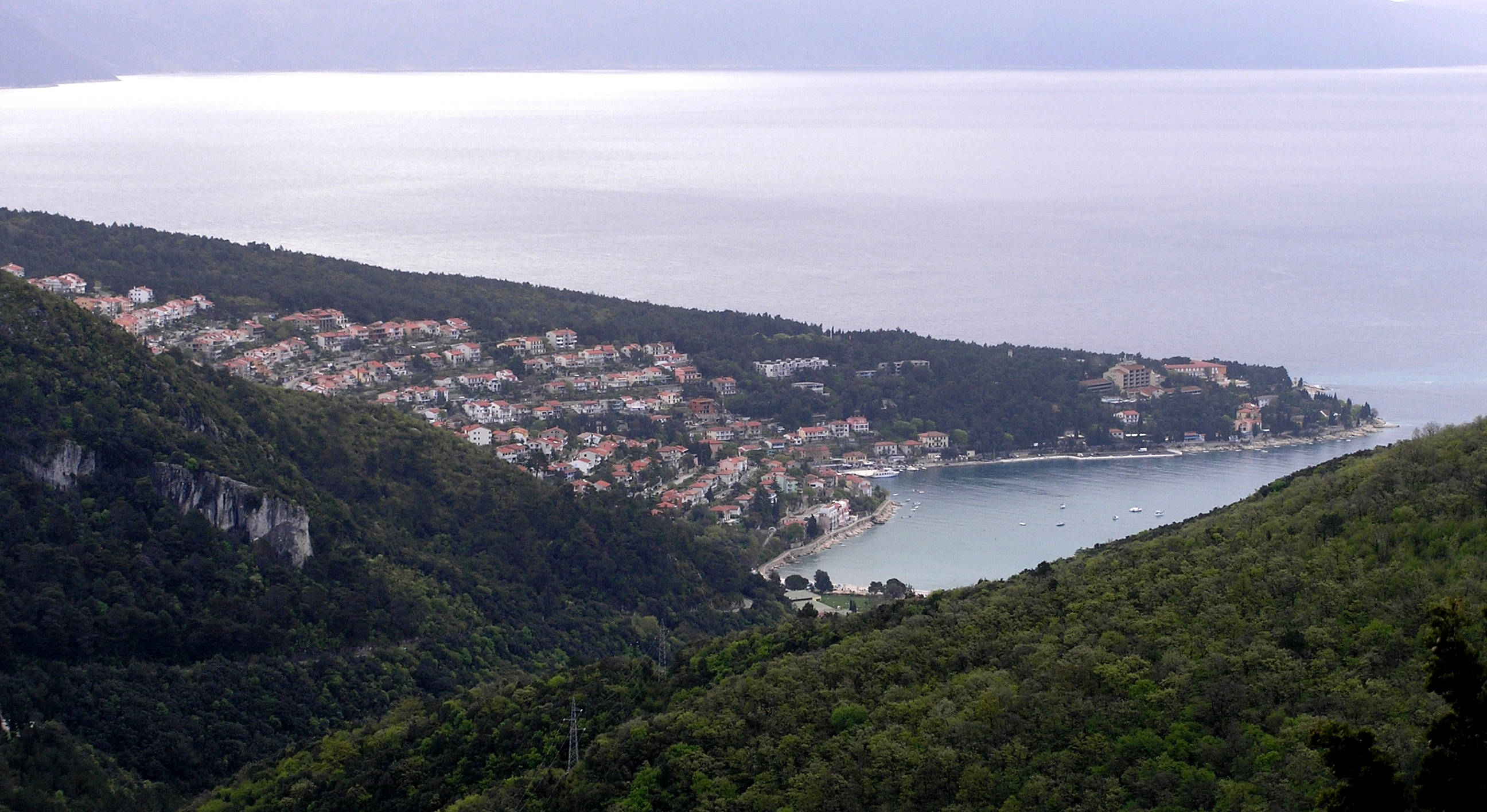 View of Rabac from Labin